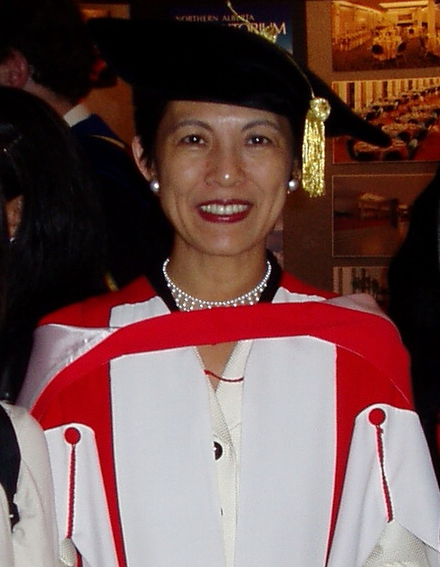 Princess Hisako Takamado of Japan, just after receiving an honorary doctorate and delivering the convocation speech at the University of Alberta, 10th June 2004.